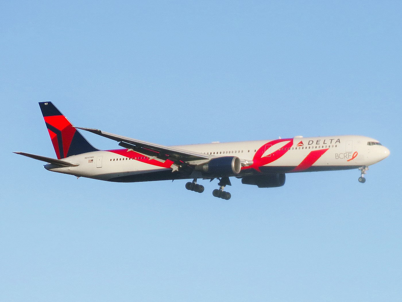 Delta Air Lines' pink plane, a Boeing 767-432(ER) registered N845MH and named after Evelyn H. Lauder, founder of the Breast Cancer Research Foundation, performing Flight DL411 from Frankfurt Airport, is on final approach to John F. Kennedy International Airport.